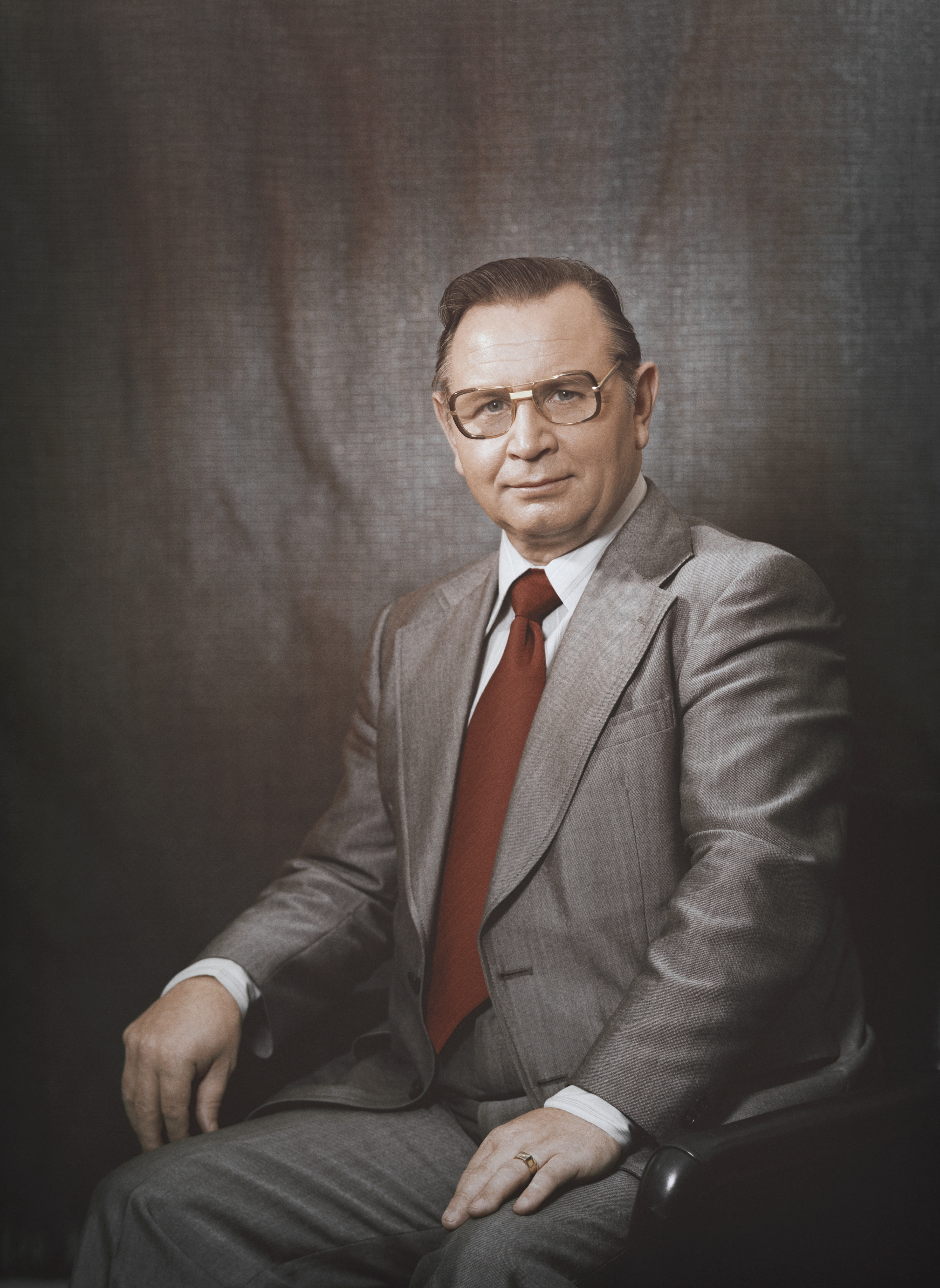 Photograph of the Finnish politician Pentti Rajala (1928–1996).